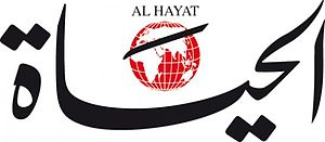 Logo of Al-Hayat Newspaper